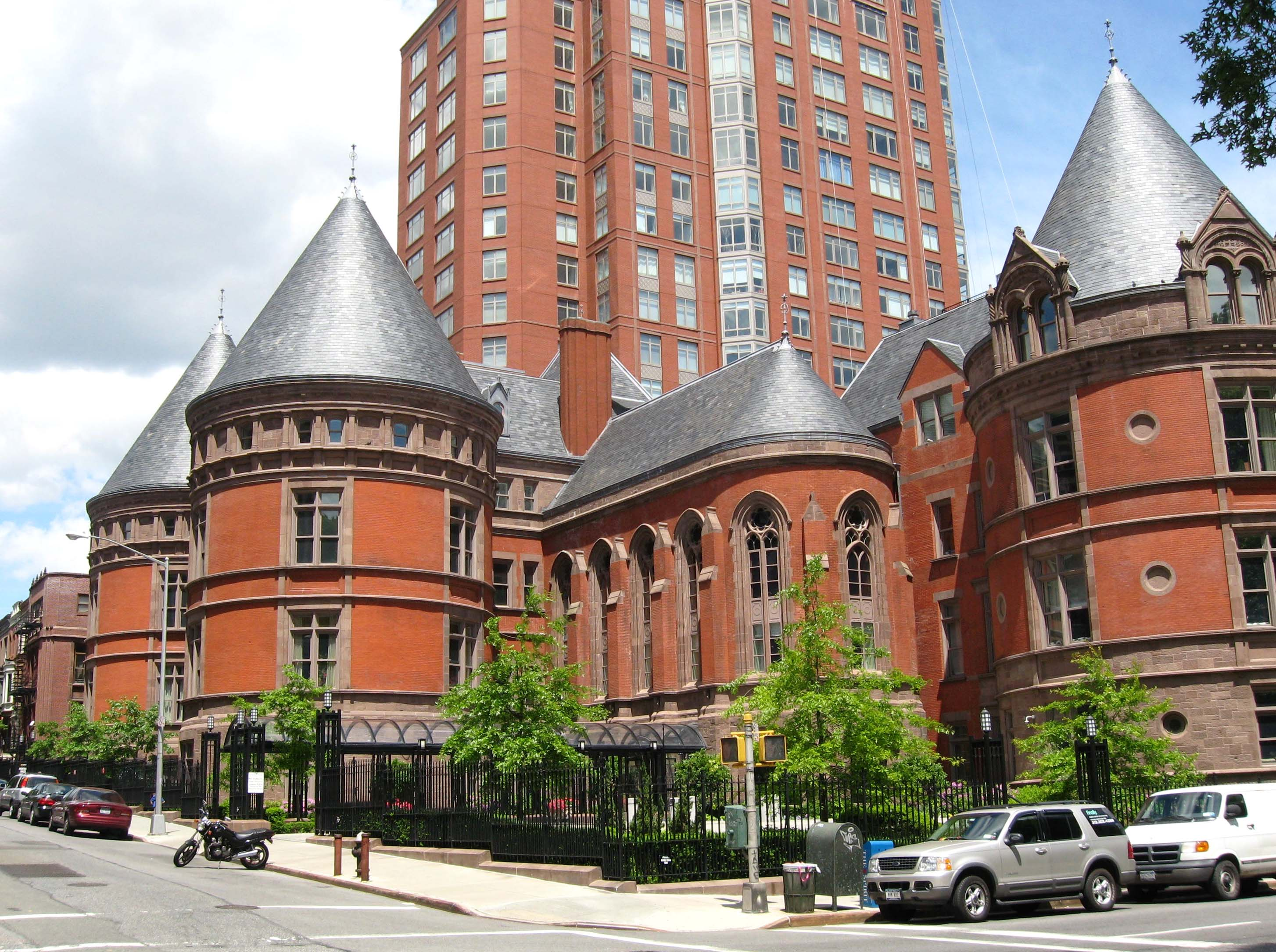 Looking northwest across CPW at New York Cancer Hospital on a sunny late morning May 24, 2008. NYCLPC designation 1976; Guidebook map 14. See also File:455 CPW.jpg.